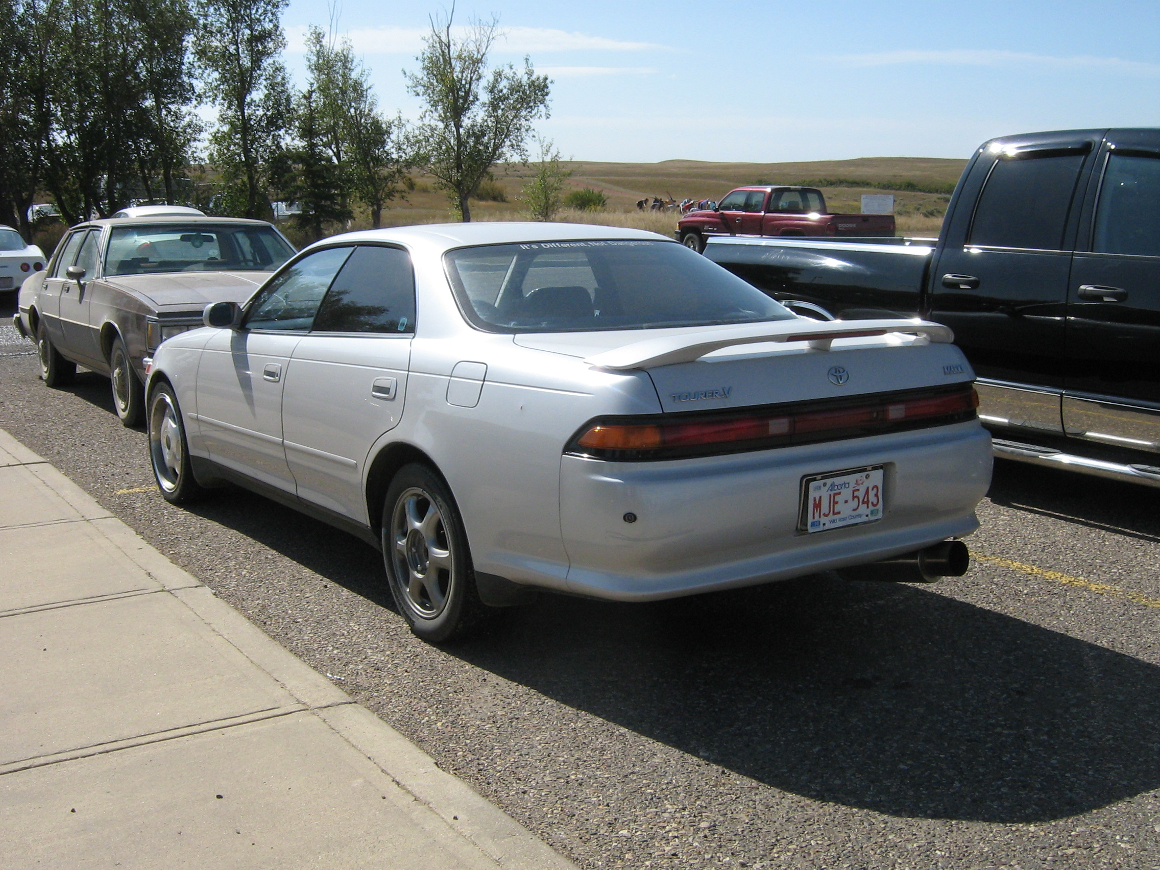 Rare to see a Toyota Mark II imported. Deep dish rims on the front but not rear ...